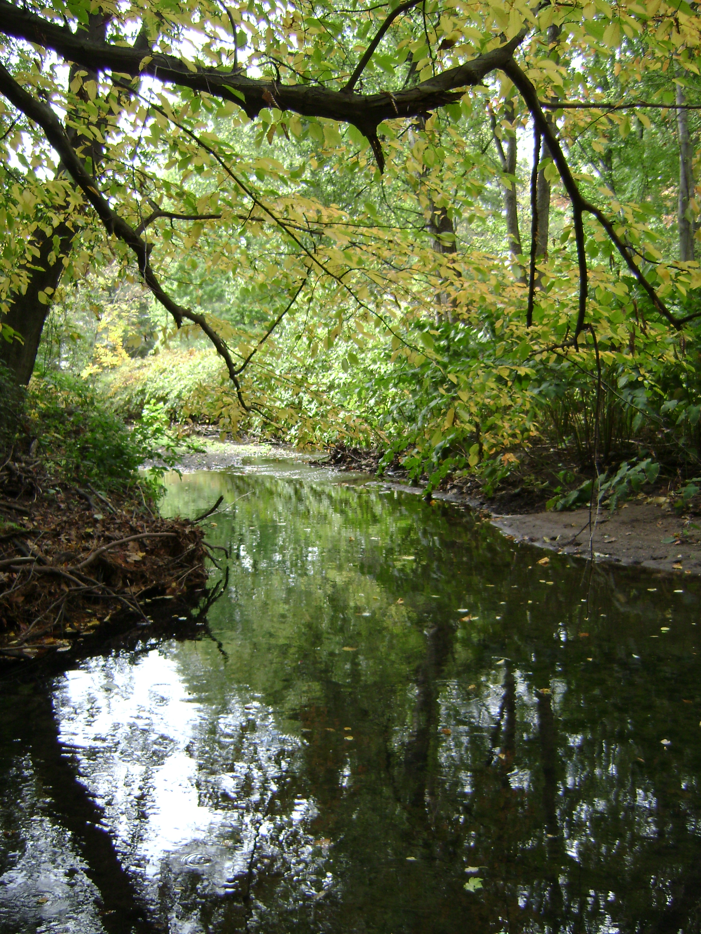 Diamond Brook, seen during an October afternoon in Diamond Brook Park, Glen Rock, New Jersey.